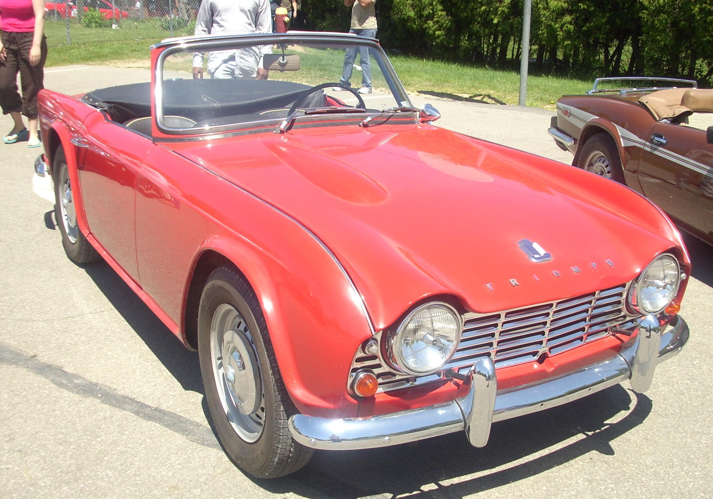 Triumph TR4 photographed at the 2008 Hudson British Car Show